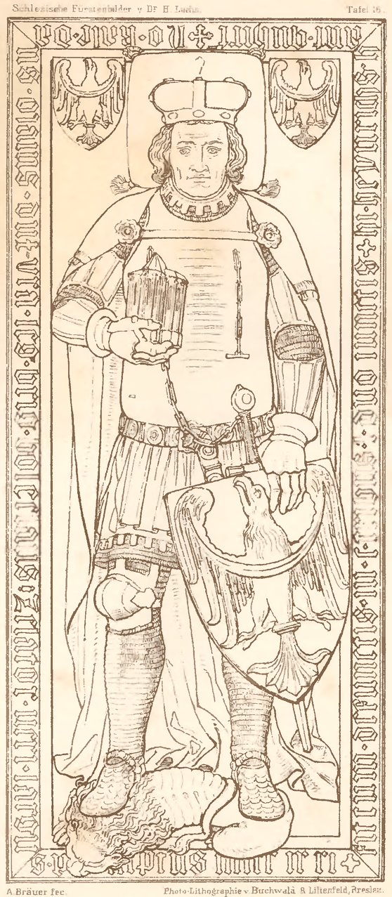 Tomb of Boleslaus, duke of Legnica † 1352